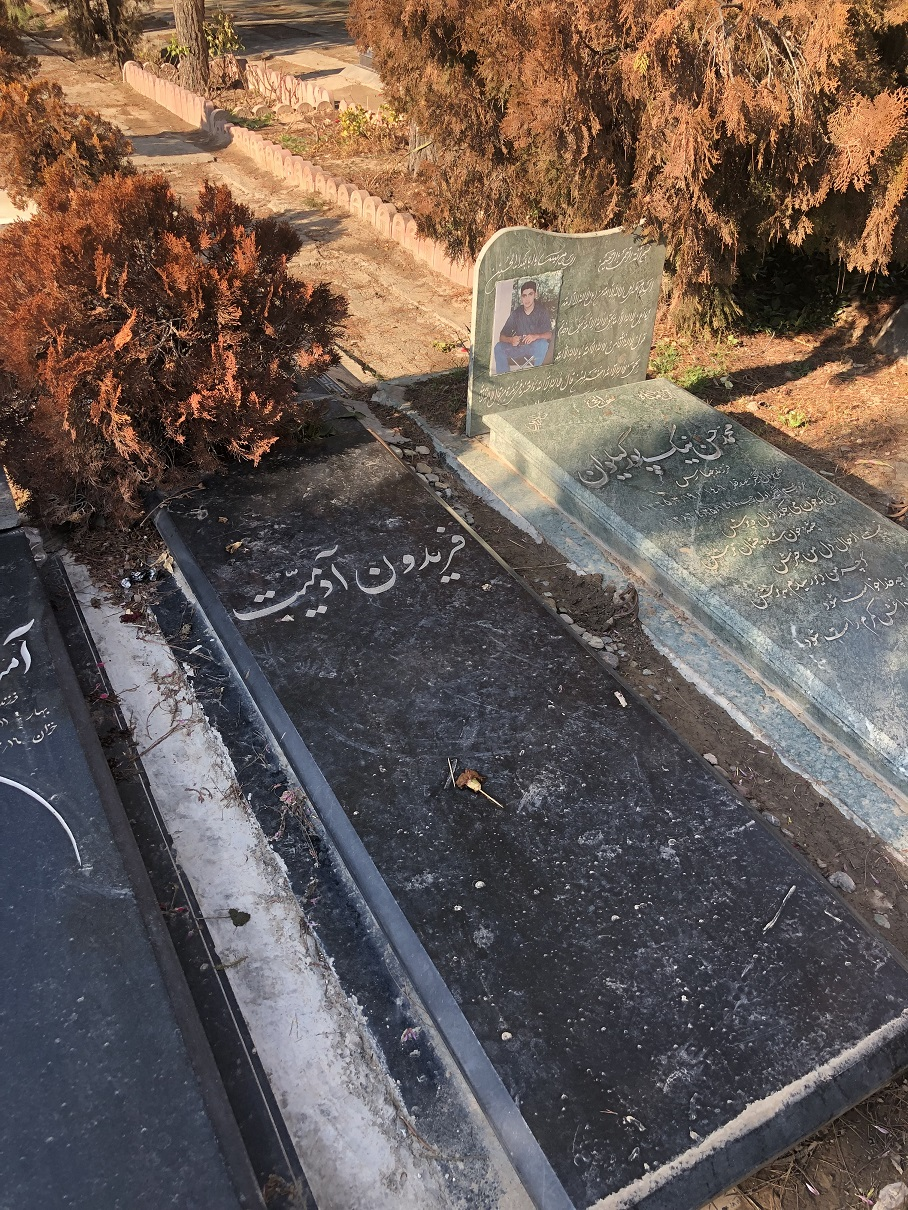 Behesht Zahra